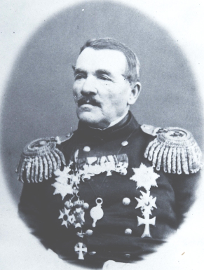 Admiral Johan Eberhard von Schantz, photographed in St. Petersburg